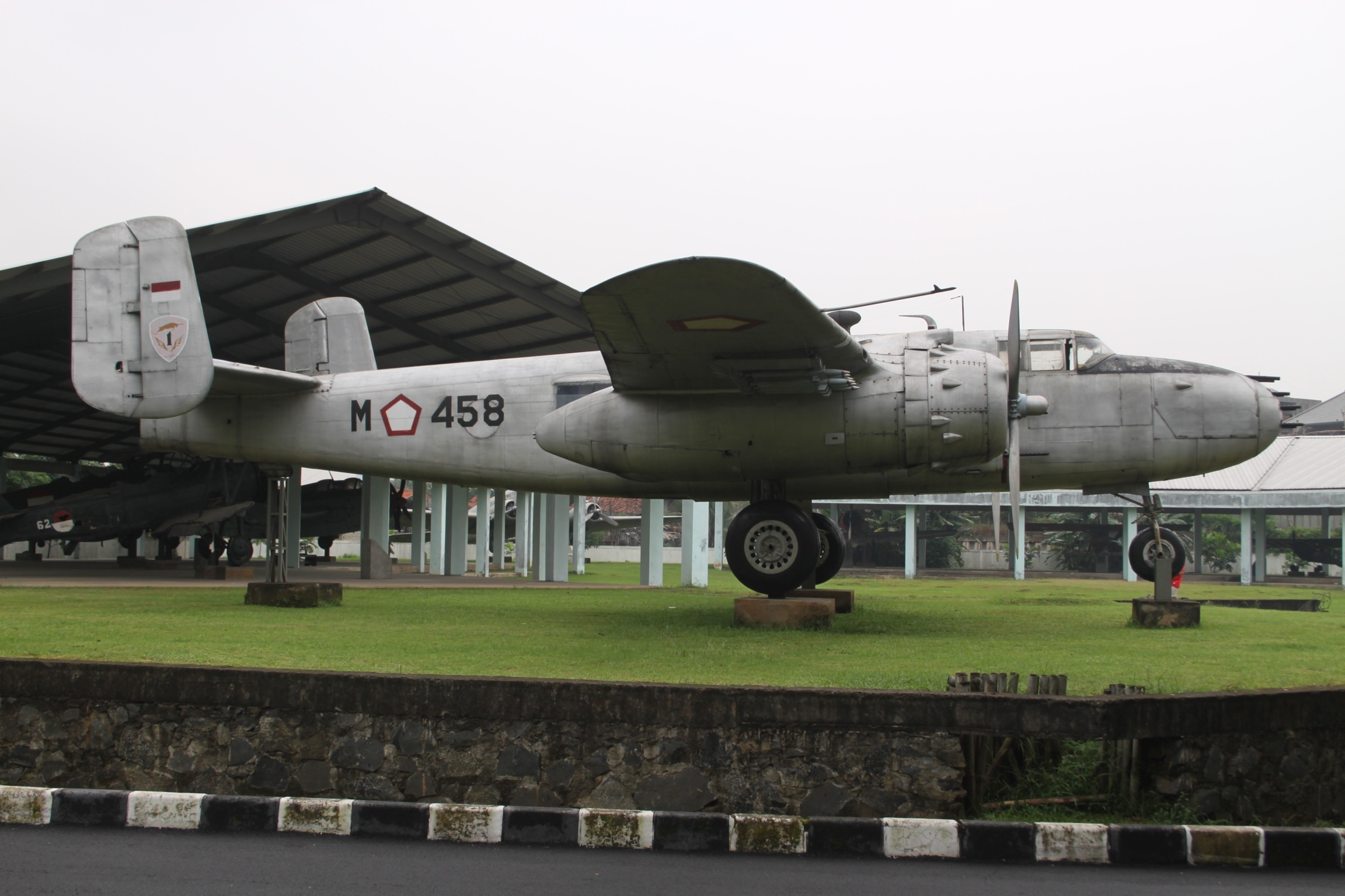 At Satriamandara Museum (Jakarta Armed Forces Museum)